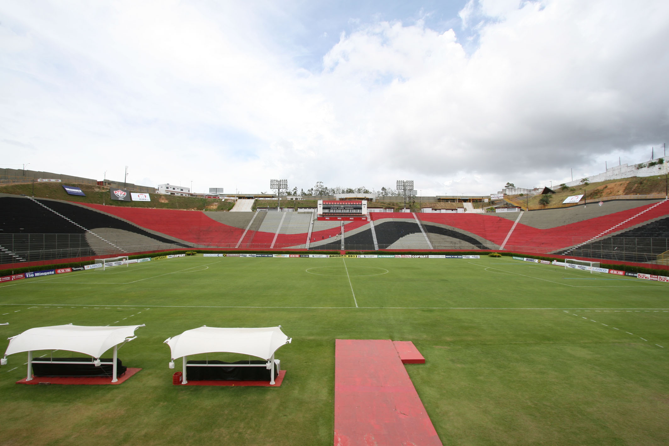 Panoramic view of the stadium Manoel Barradas (Barradão), in Salvador, Brazil.